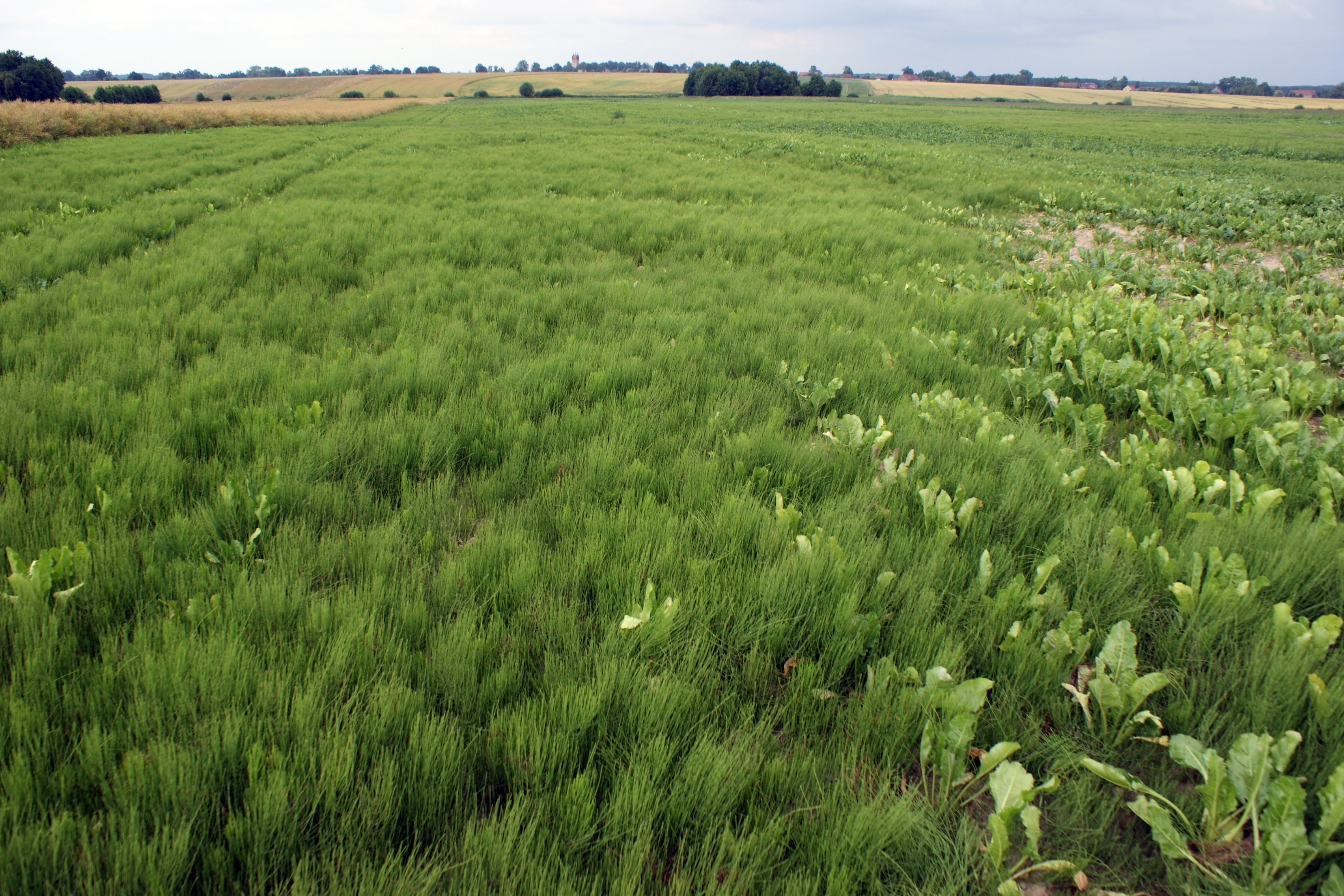 Equisetum arvense as weed in sugar beet field